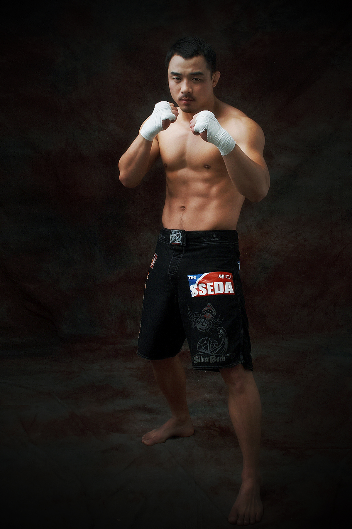 MMA Champhion